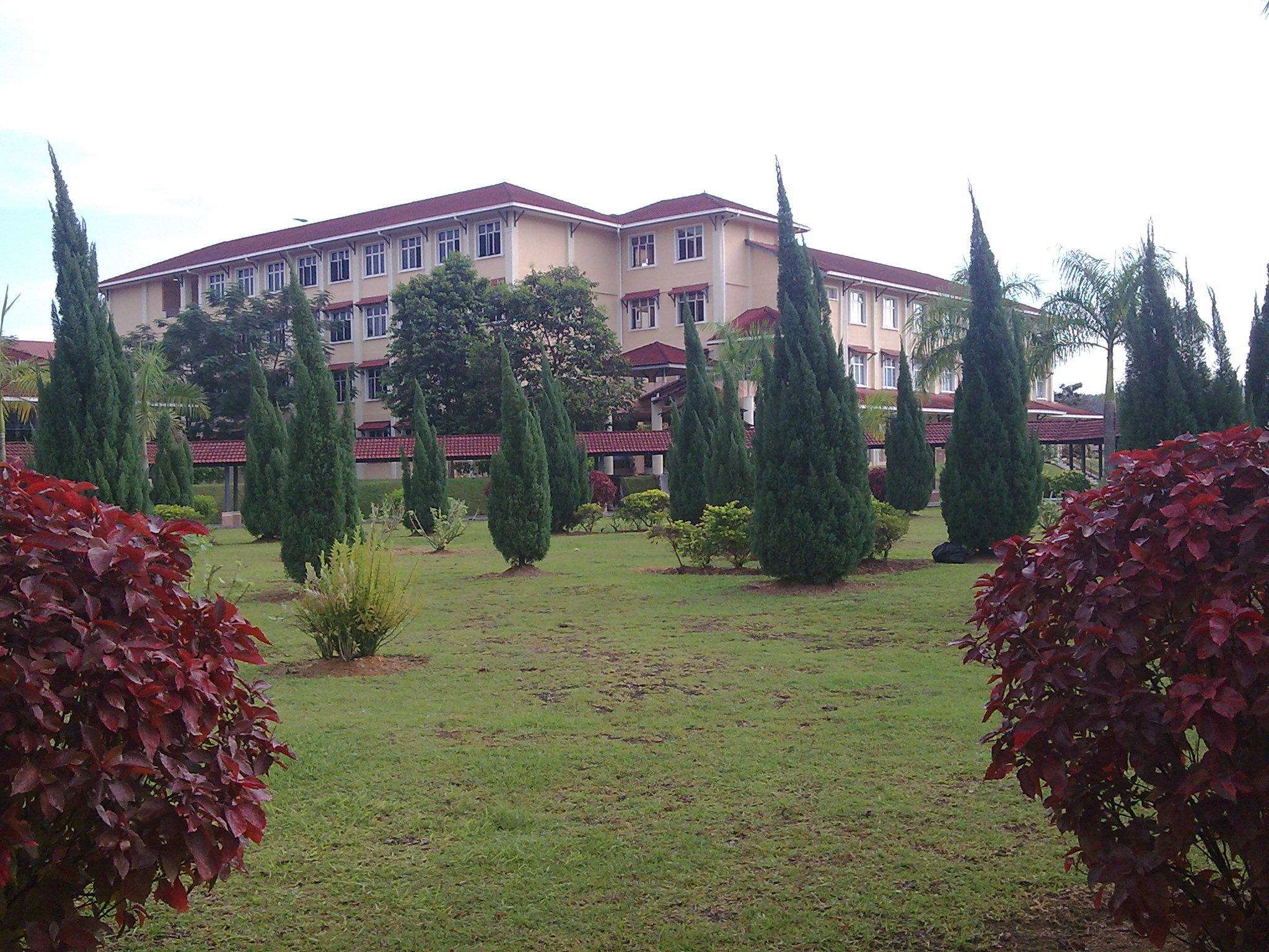 ptsb